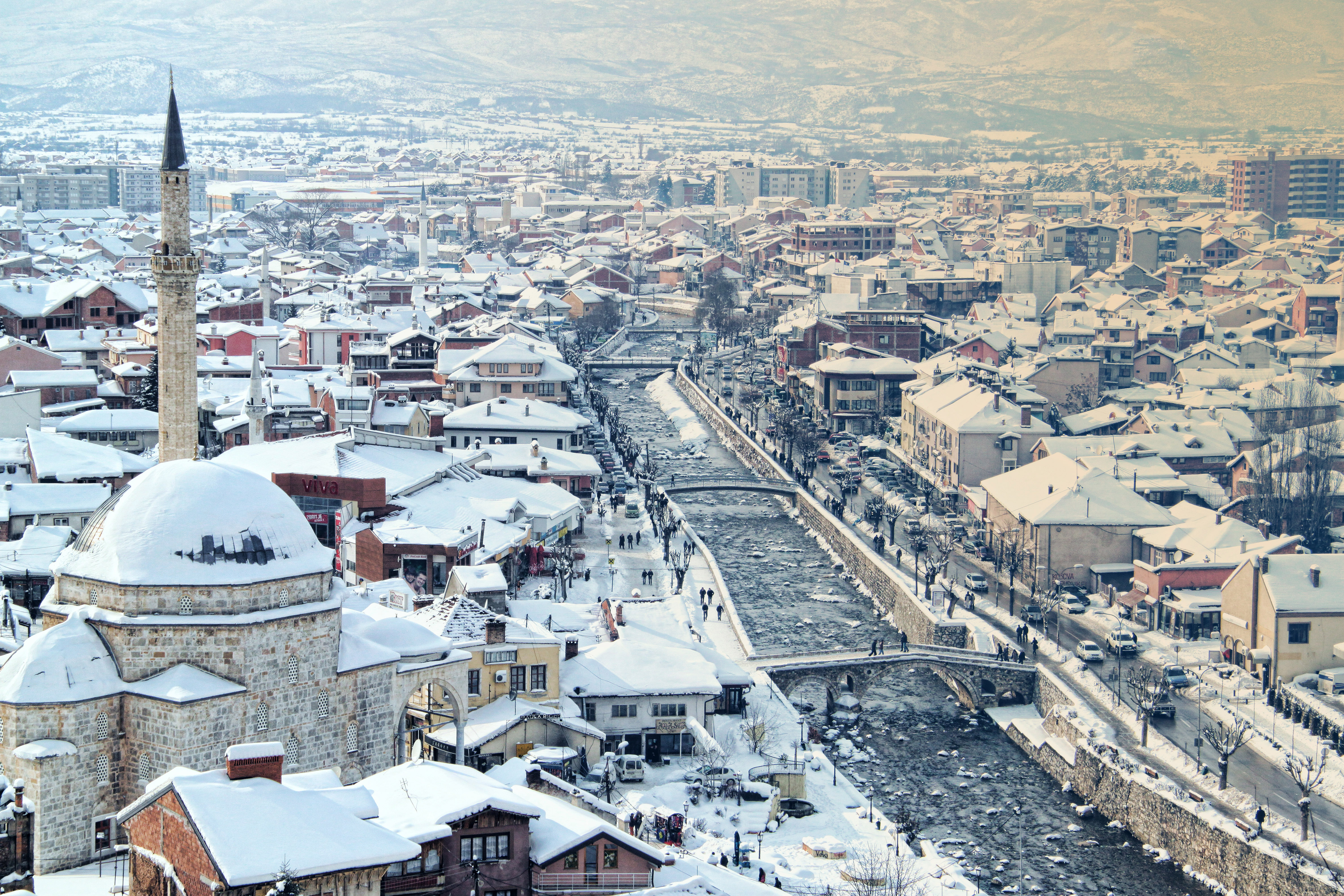 Prizreni eshte qytet antik me nje arkitekture shume te bukur.